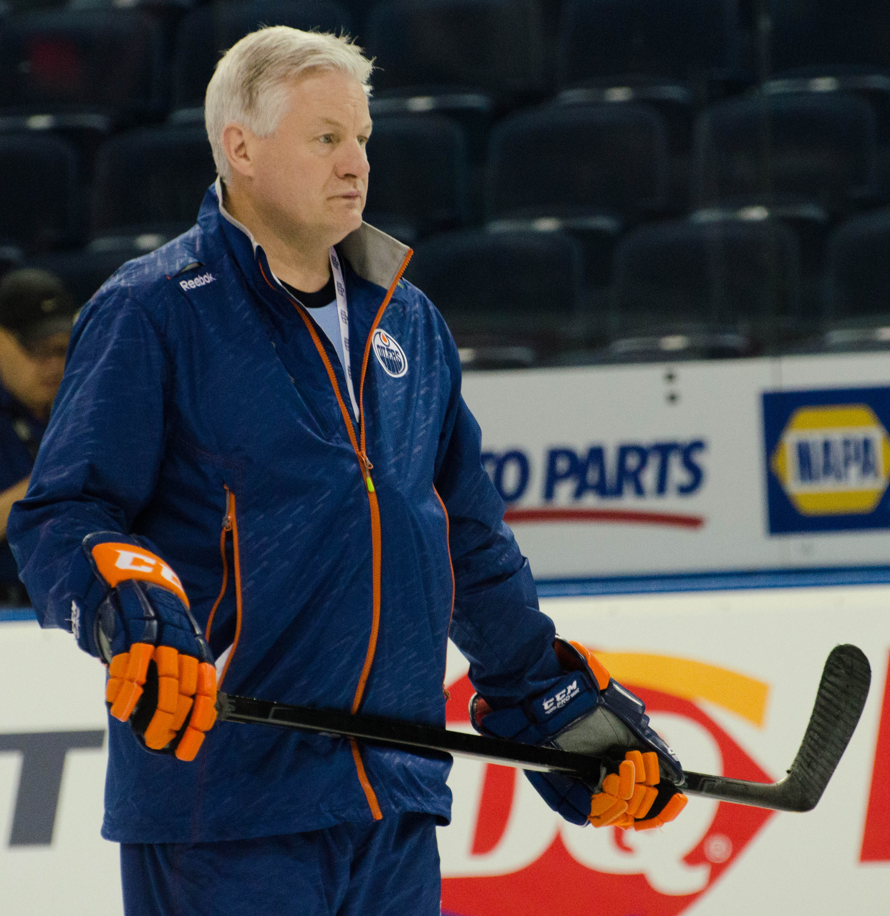 Rick Carriere at the 2015 Edmonton Oilers Development Camp, July 4, 2015.